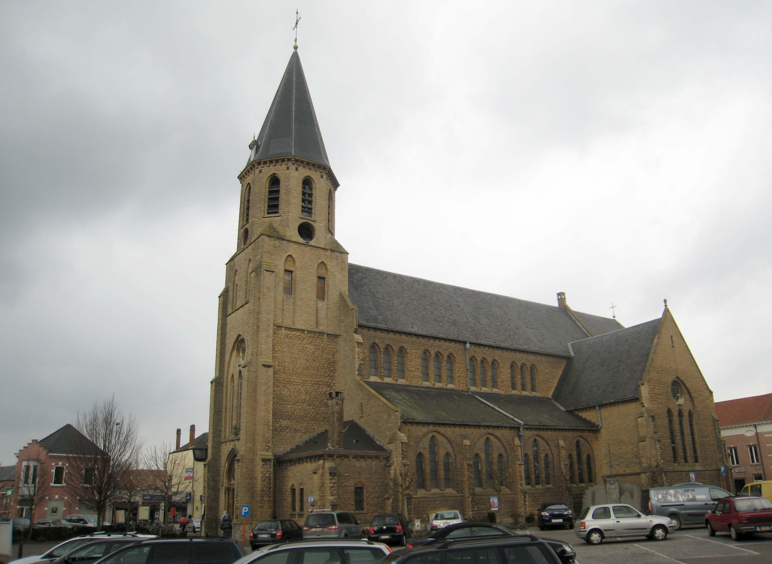 Church in the centre of Boortmeerbeek